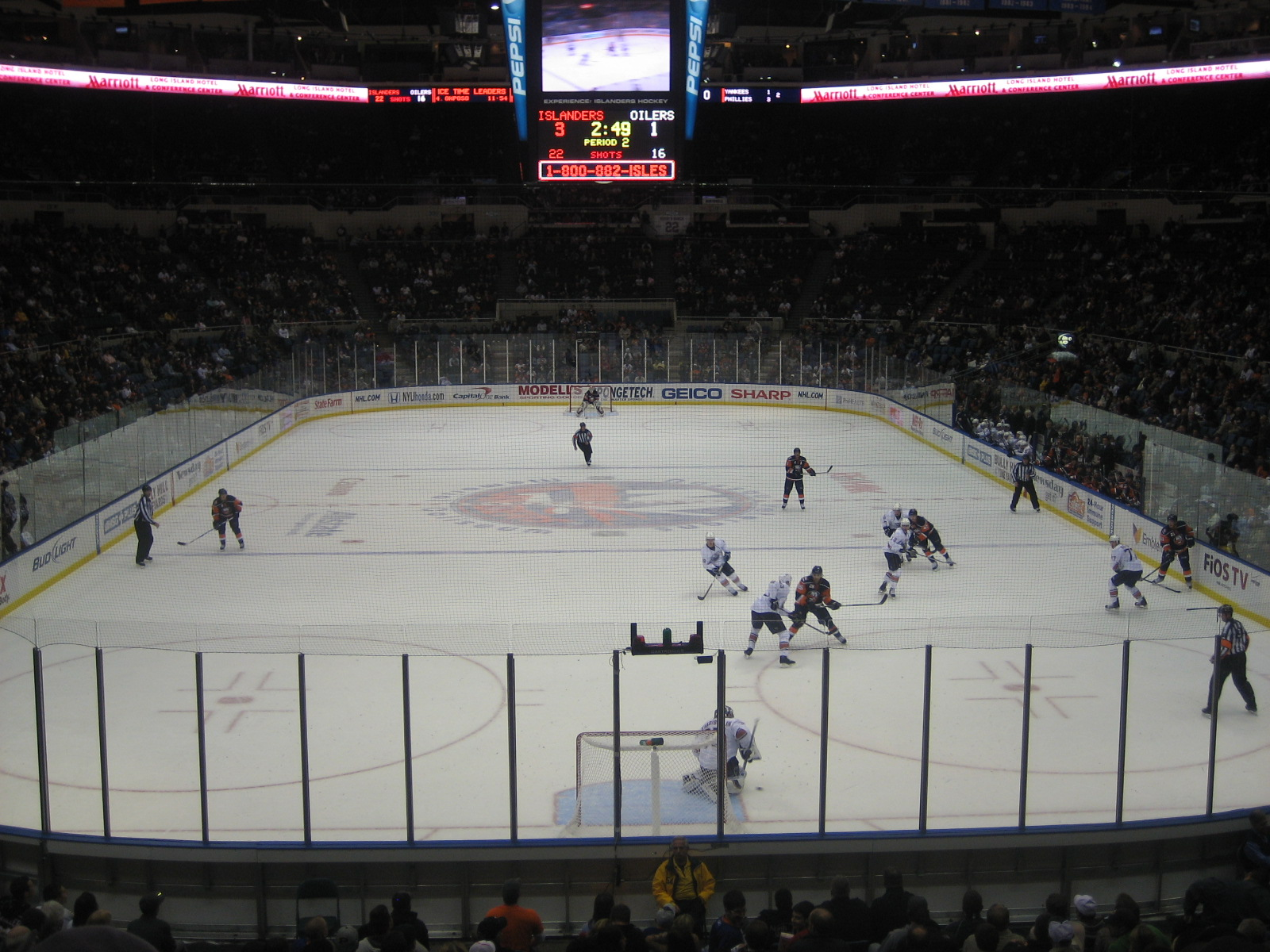 Full view of the rink during the New York Islanders vs. Edmonton Oilers game on November 2, 2009.